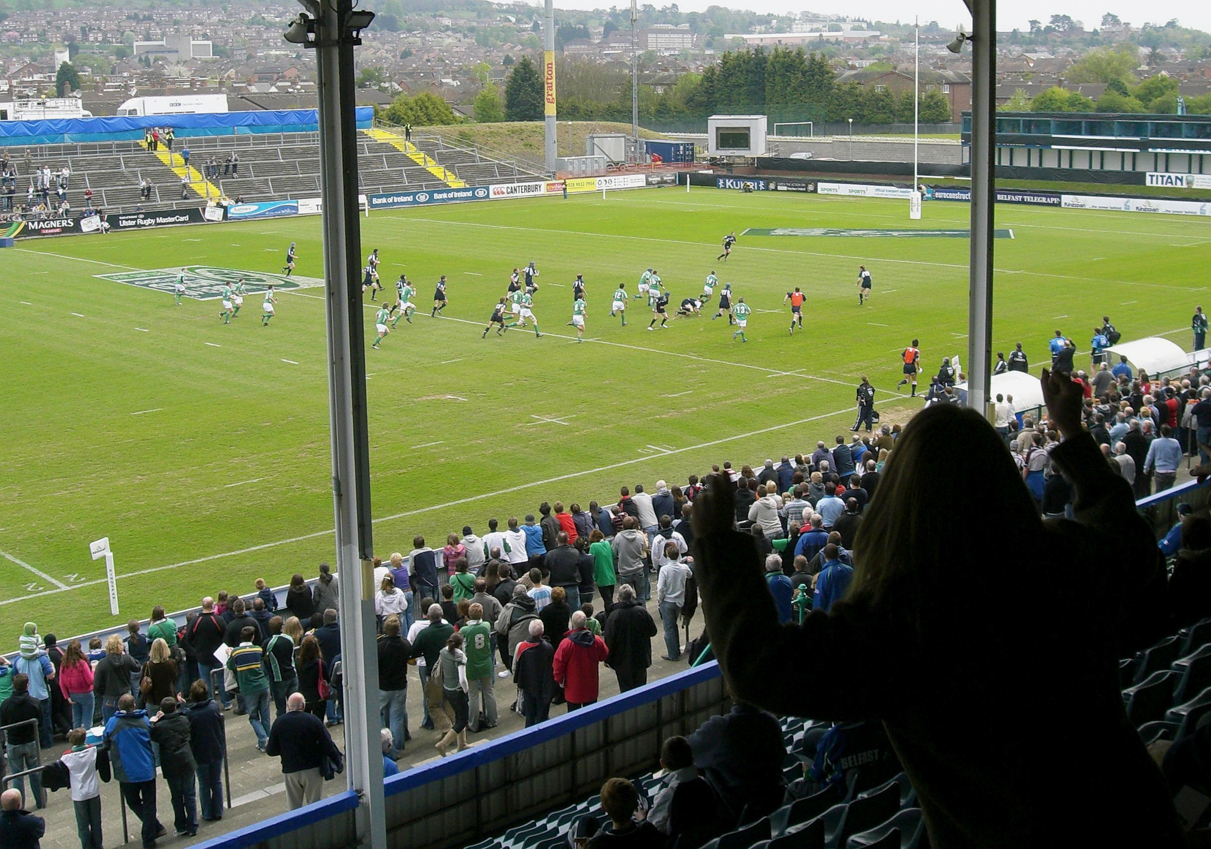 Ravenhill Stadium in Belfast, Northern Ireland